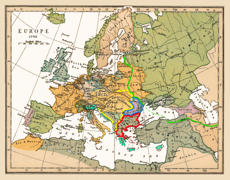 Great Catherine's Balkan dream since Florovsky (George), Les Voies de la théologie russe, Paris 1937, french translation by Roberti (J.C.), Paris, Desclée de Brouwer Eds., 1991, p.|150.